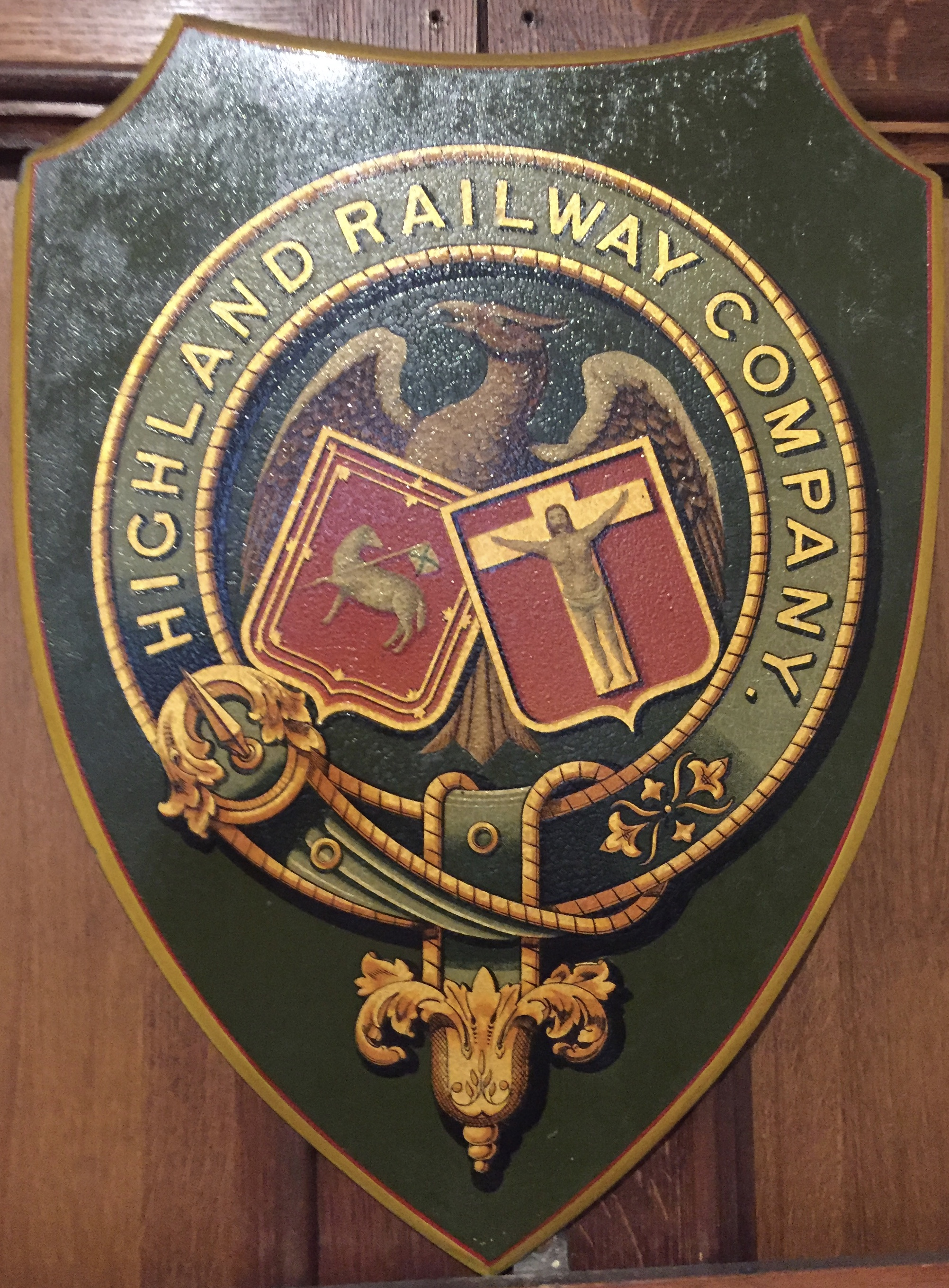 In Dunrobin Castle